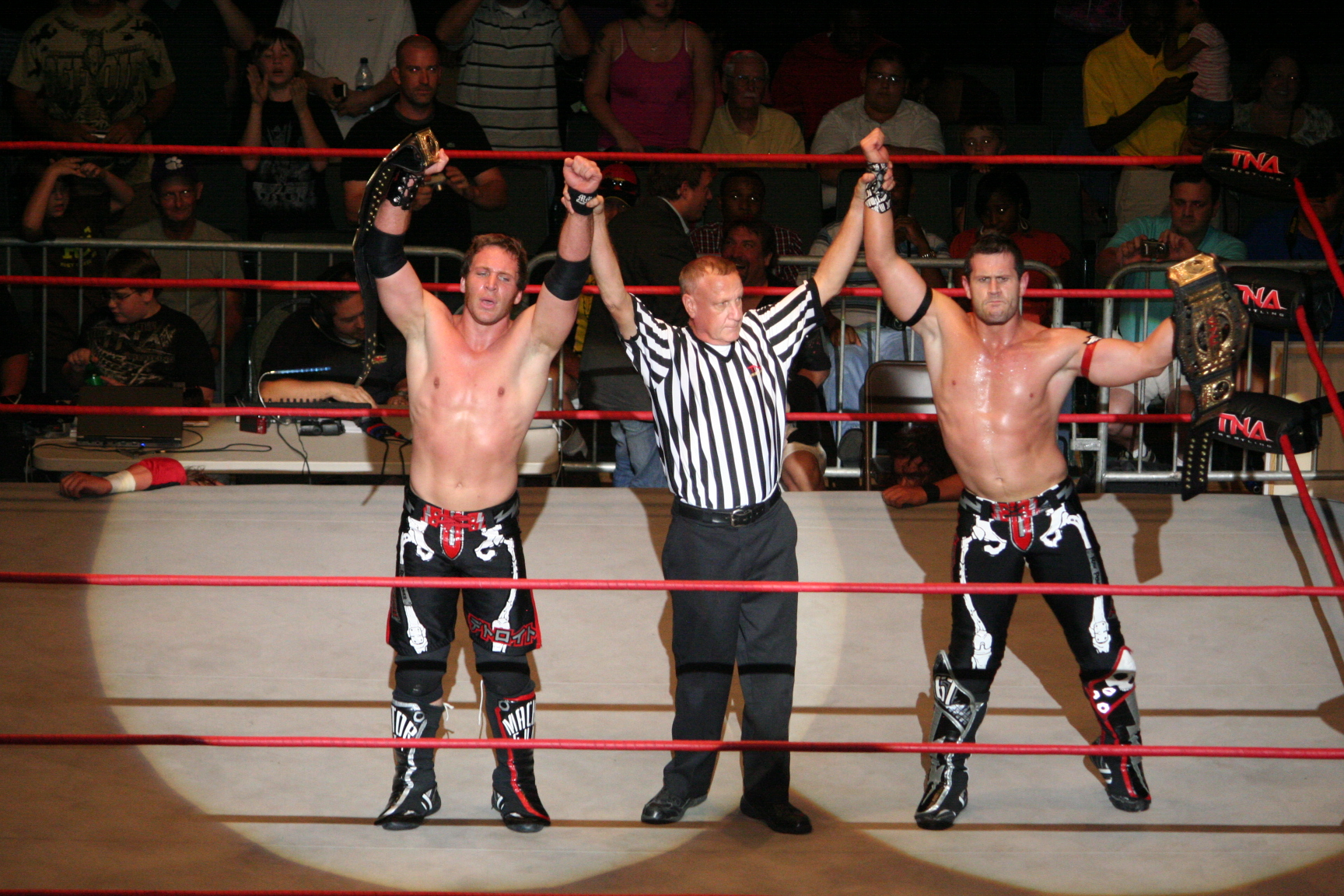 Professional wrestlers Alex Shelley and Chris Sabin at a TNA live event